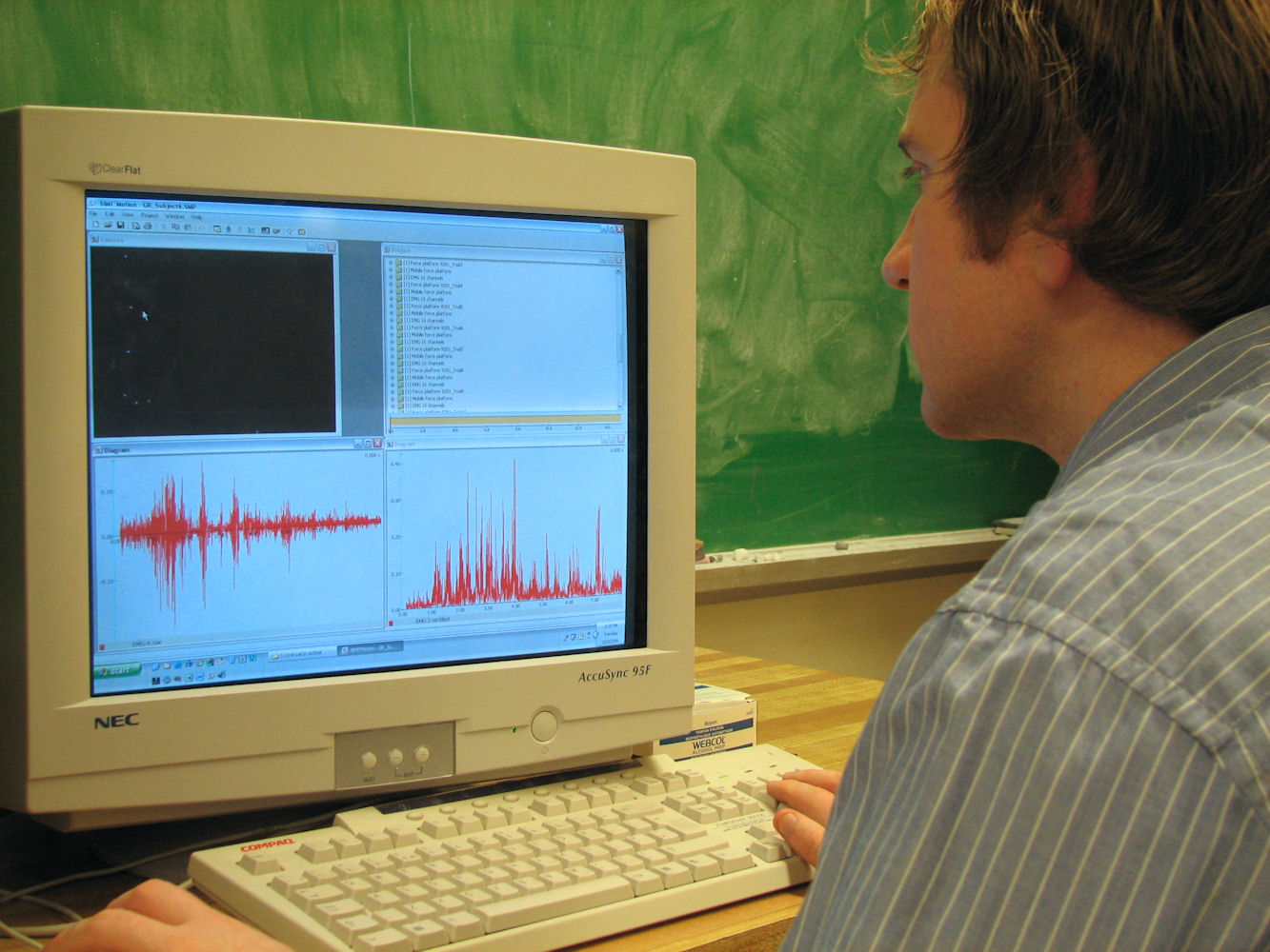 Electromyography during gait termination, Biomechanics Laboratory, University of Ottawa, Ontario, Canada